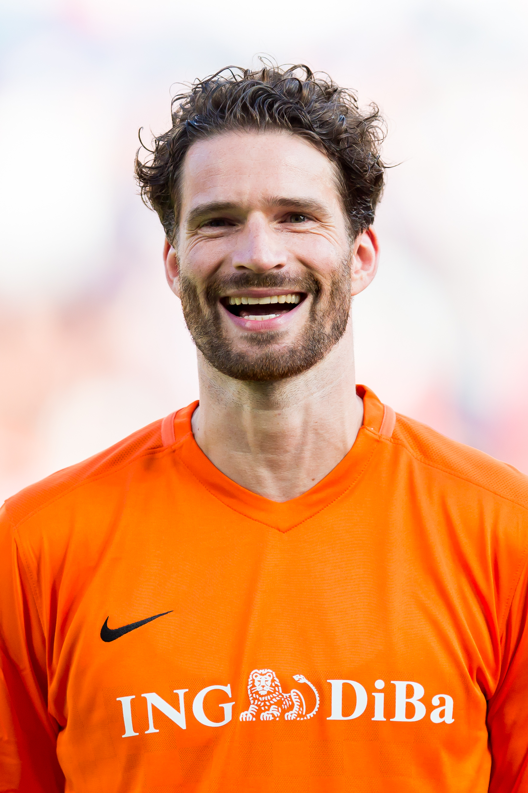 during football match between Nowitzki All Stars and Nazionale Piloti in honor of Michael Schumacher at Opel Arena, Mainz, Rheinland Pfalz, Germany on 2016-07-27, Photo: Sven Mandel